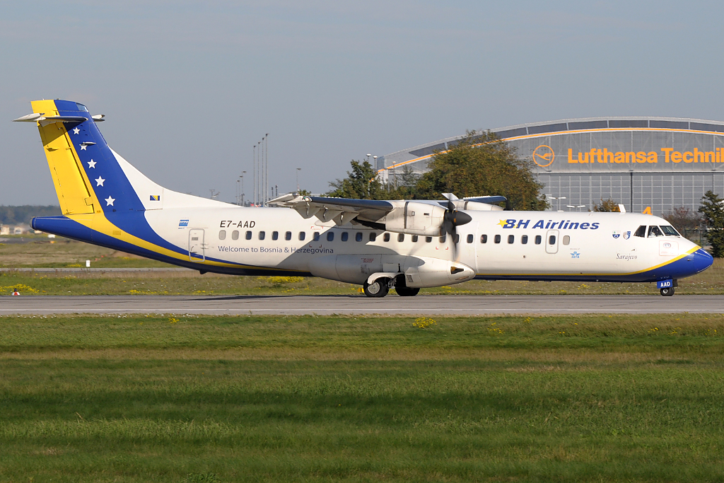 BH Airlines ATR72 in Frankfurt